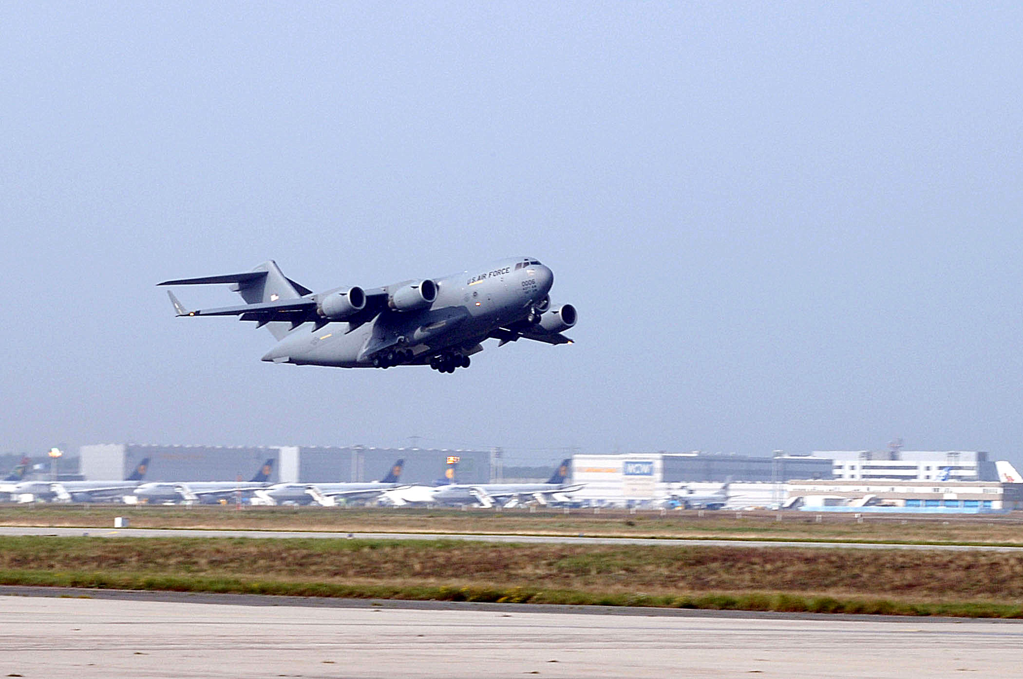 The Spirit of Berlin," a C-17 Globemaster III, takes off during the Rhein-Main Air Base closure ceremony Oct. 10 2005, officially marking the an end of 60 years of airlift history here